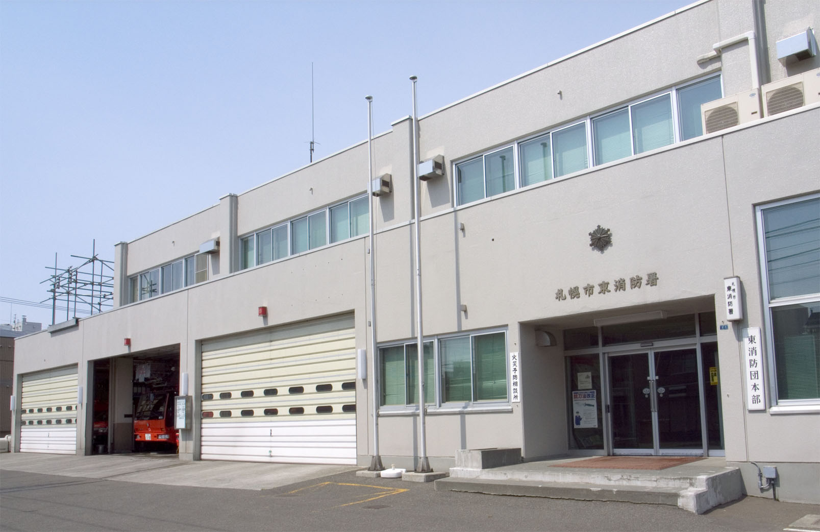 Sapporo higashi fire station, Hokkaido, Japan